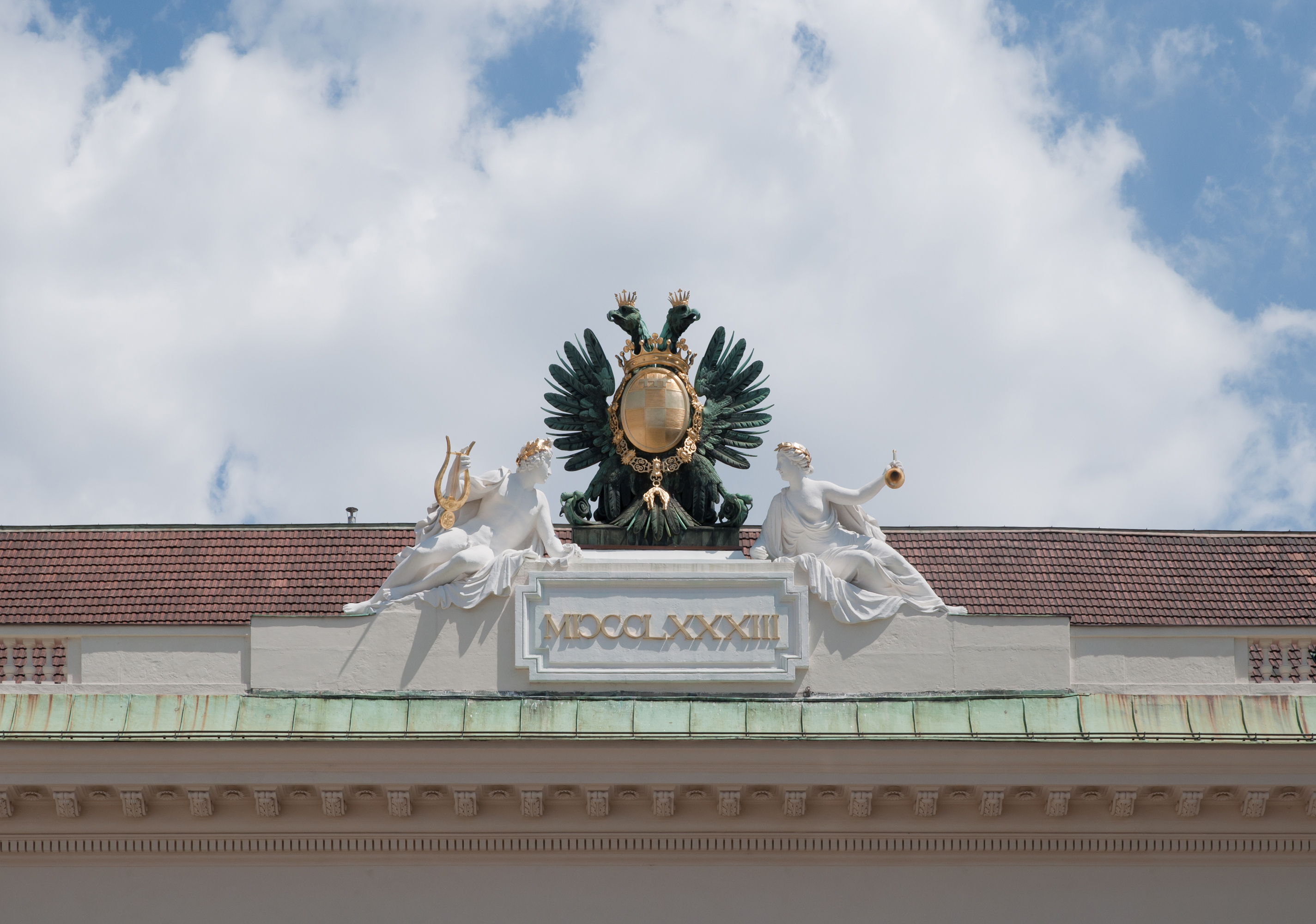 Pallavicini Palace COA (Coat of Arms) - Vienna, Austria.